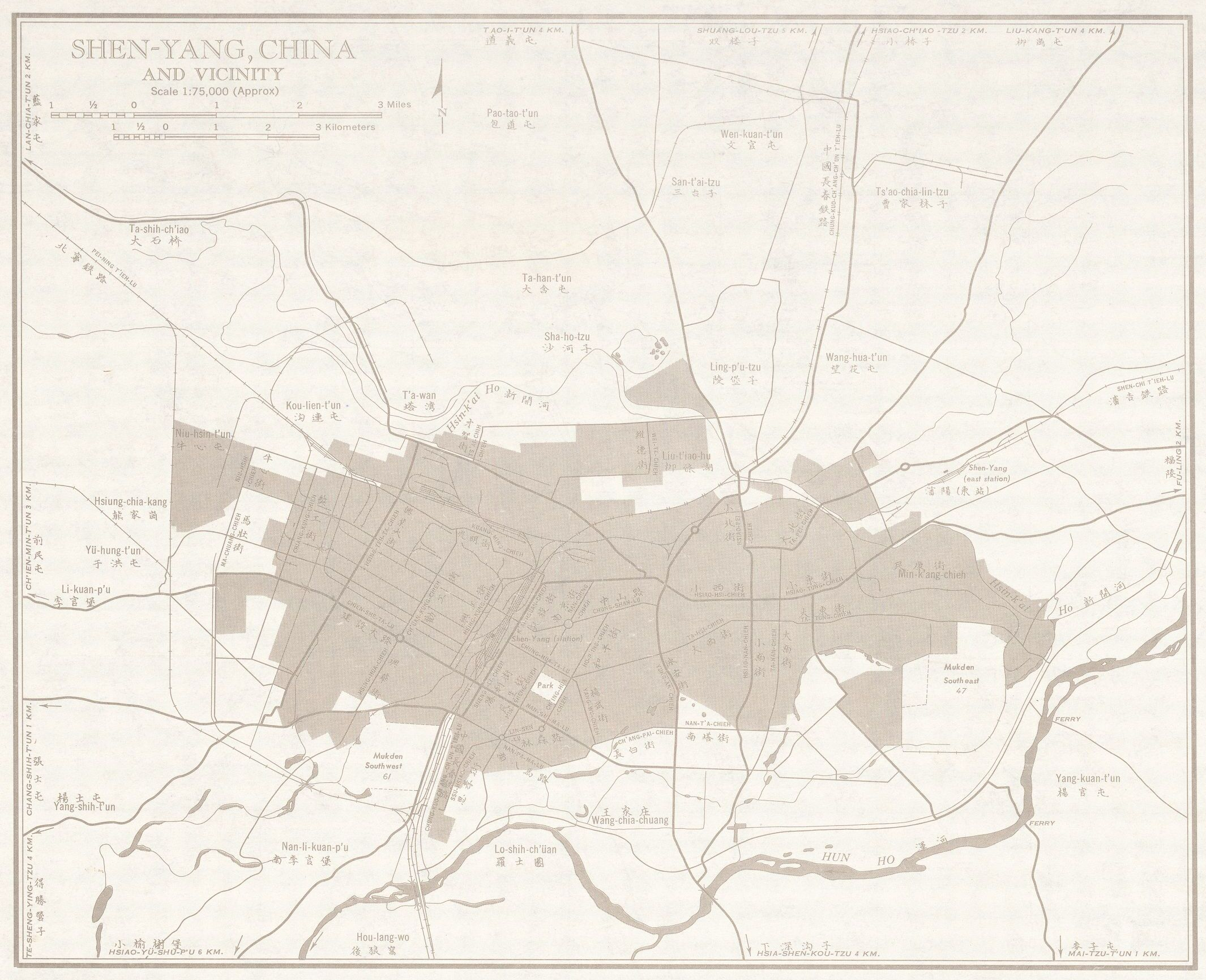 Manchuria AMS Topographic Maps